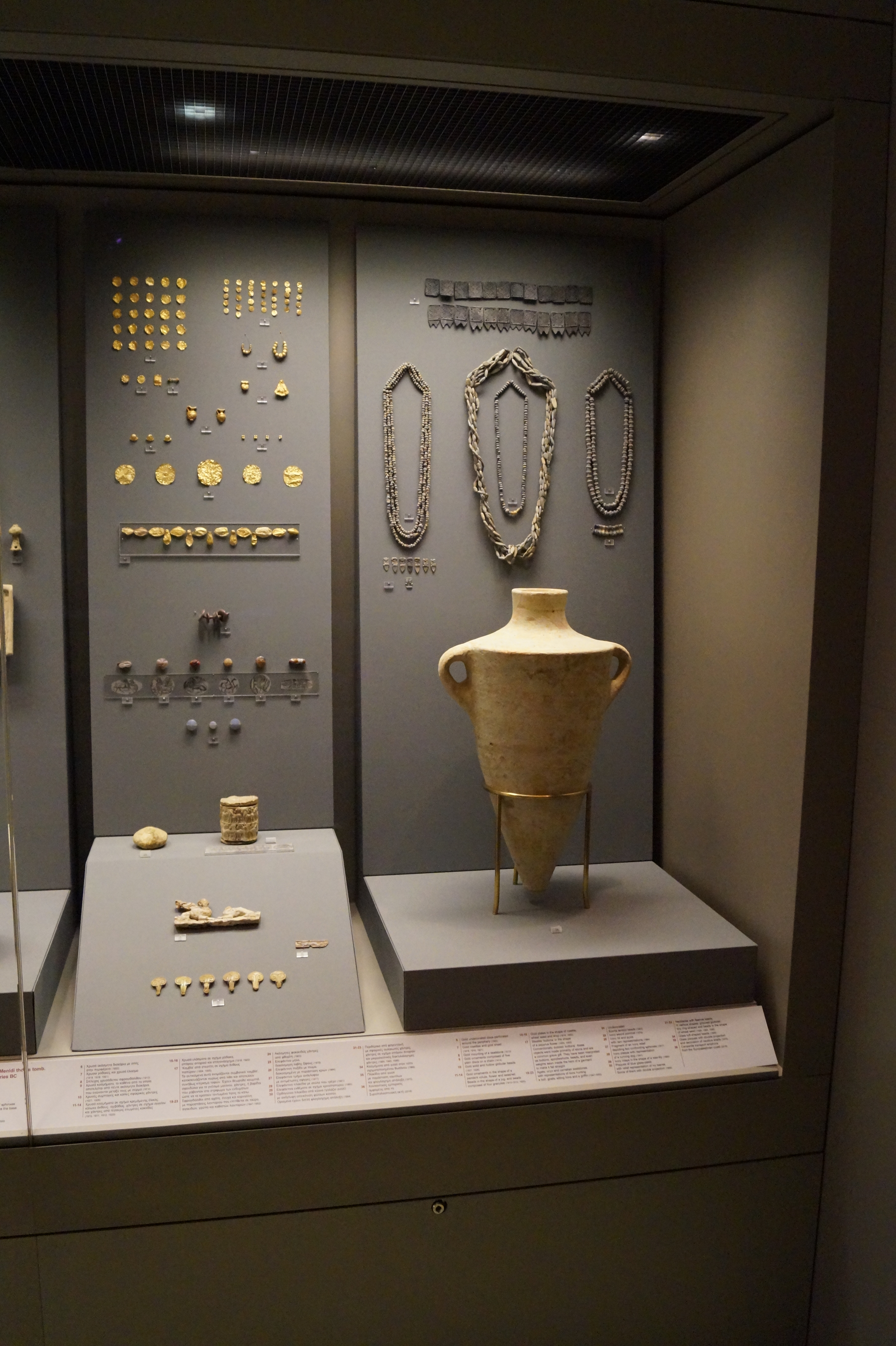 National Archaeological Museum of Athens: Findings from tholos tomb of Menidi.